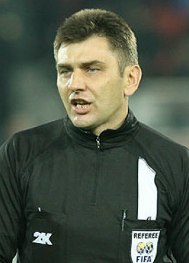 Alexandr Gvardis in match between FC Zenit St. Petersburg and FC Saturn Ramenskoye